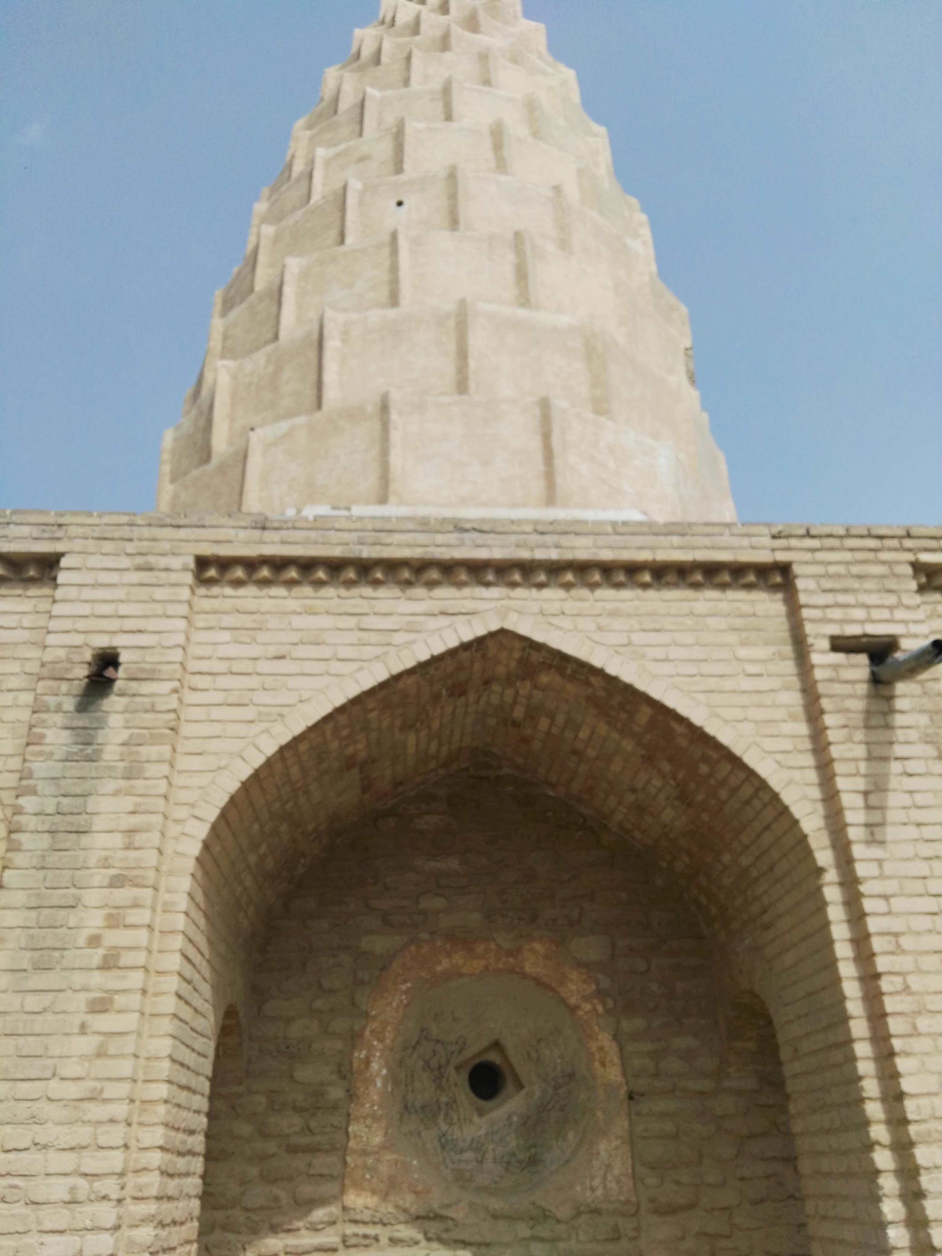 This is a photo of the tomb Jacob Laith Safari